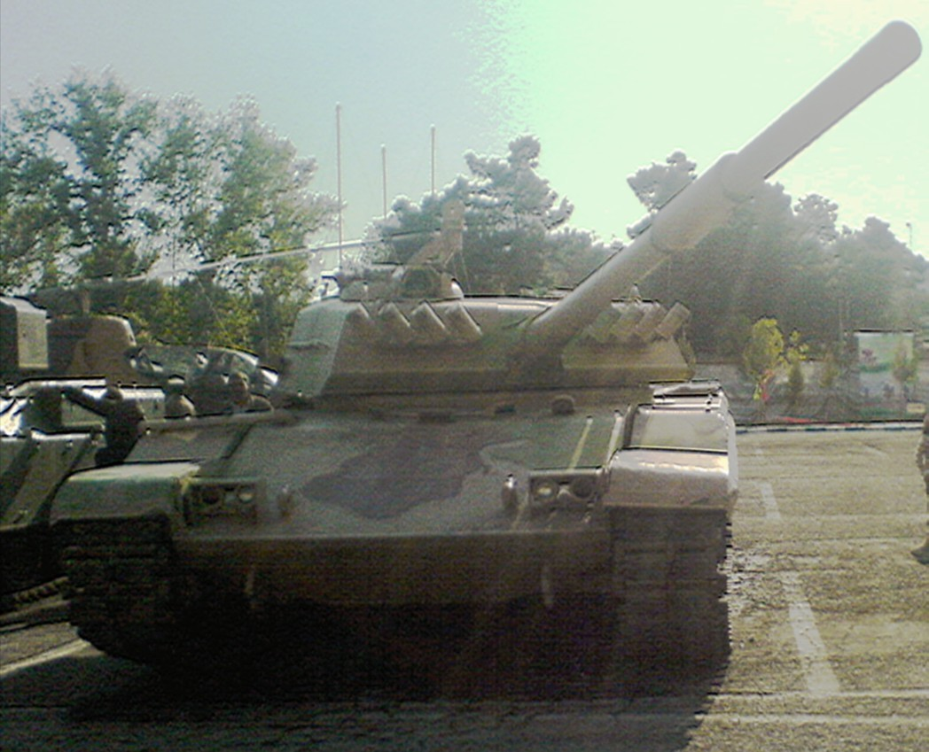 Front view of a Zulfiqar tank of the Iranian Army.